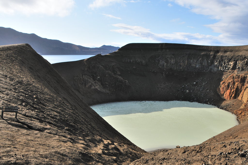 Small crater Víti (in foreground) and large crater Öskjuvatn (in background), Askja volcano caldera, Iceland.